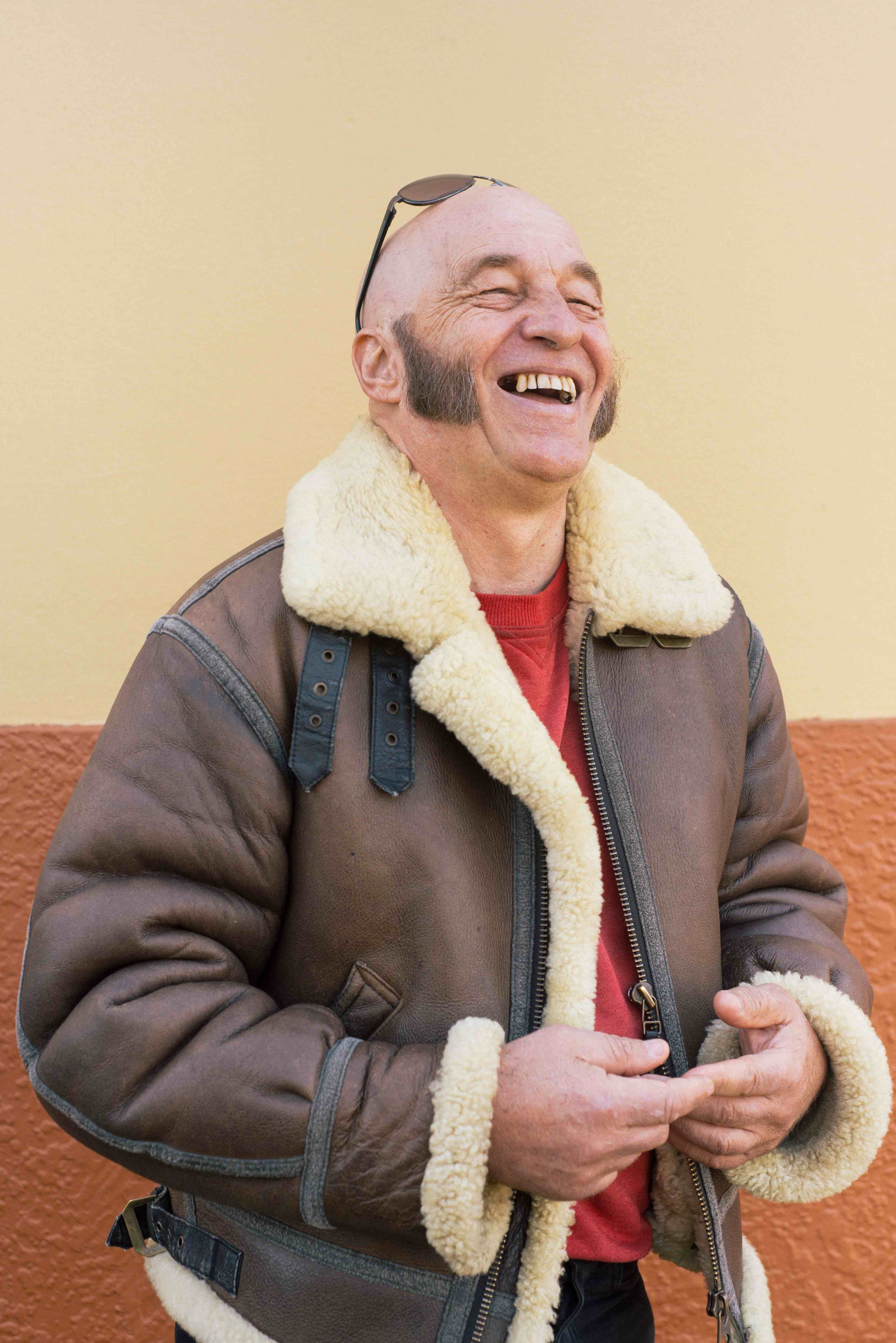 Auckland 2017